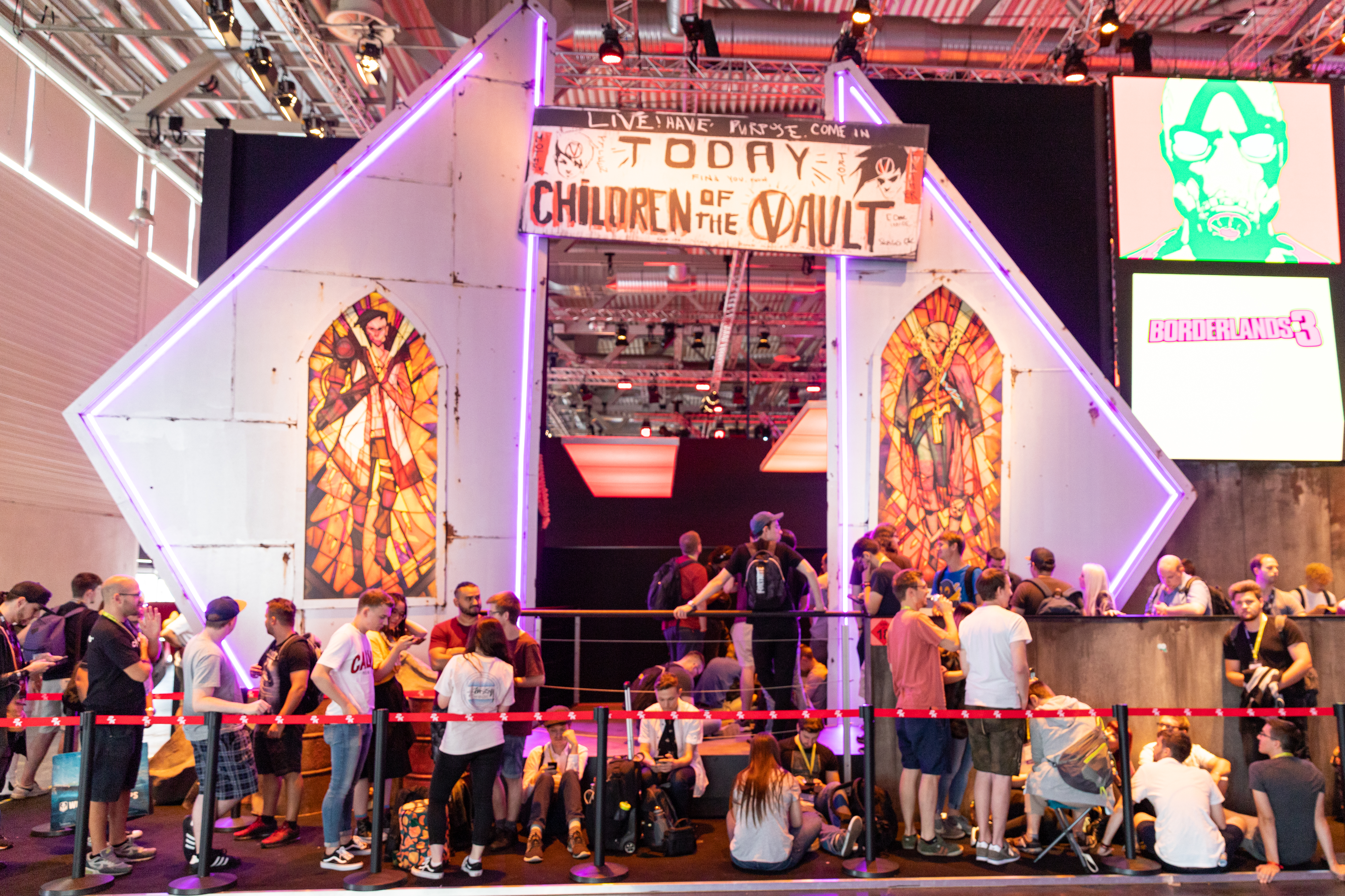 Borderland 3 Gamescom Cologne 2019